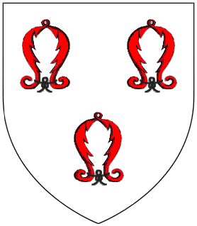 Arms of Donet of Silham, Rainham, Kent: Argent, three pairs of barnacles gules tied sable. Source: Hasted, Edward, The History and Topographical Survey of the County of Kent: Volume 6, 1798, pages 4-15, Parishes: Rainham [1] concerning the estate of Silham in the parish of Rainham, Kent: "At length it descended down to James Donet, who died in 1409, holding this manor in capite. He lies buried in the high chancel of this church (i.e. Rainham), in one of the windows of which were formerly his arms, Argent, three pair of barnacles, gules. On his death without male issue, his sole daughter and heir Margaret carried this manor in marriage to John St Leger of Ulcomb, Kent